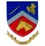 Coat of arms of Kisrécse, Hungary